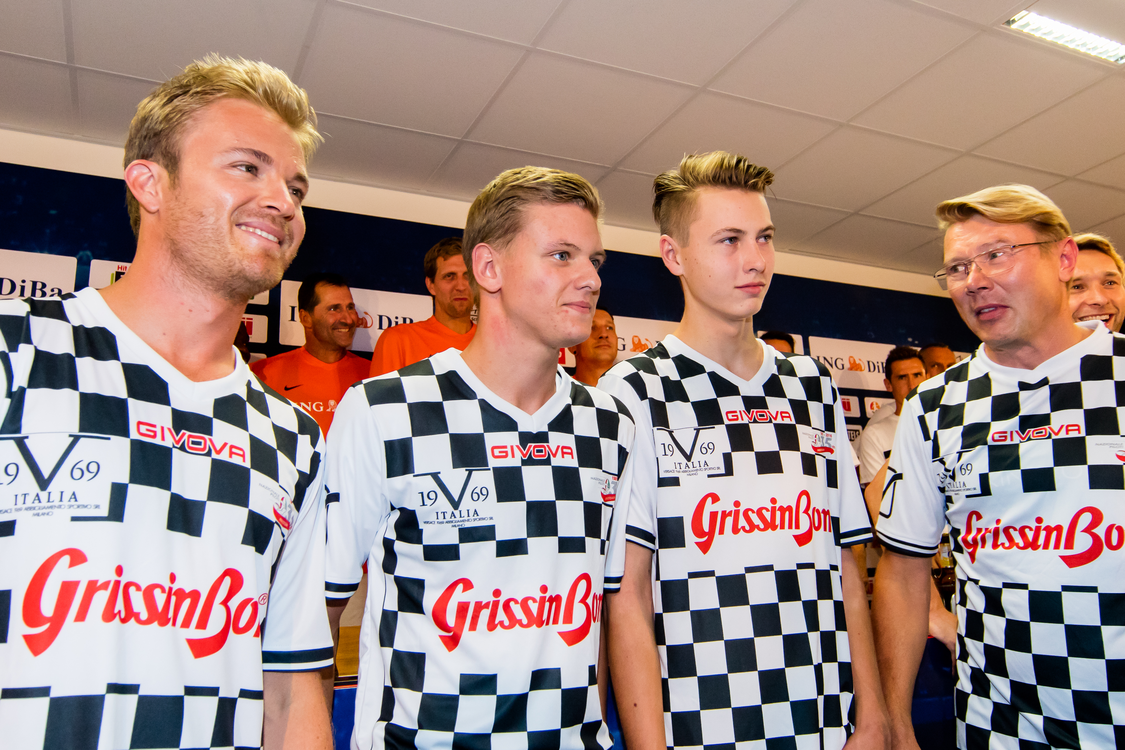 during football match between Nowitzki All Stars and Nazionale Piloti in honor of Michael Schumacher at Opel Arena, Mainz, Rheinland Pfalz, Germany on 2016-07-27, Photo: Sven Mandel